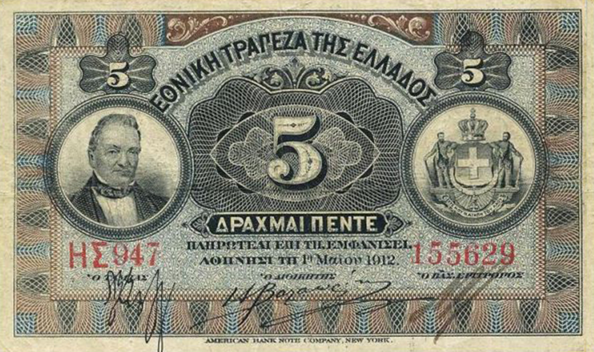 Greek Banknote of 5 Drachmas, issued 1912 by the National Bank of Greece.